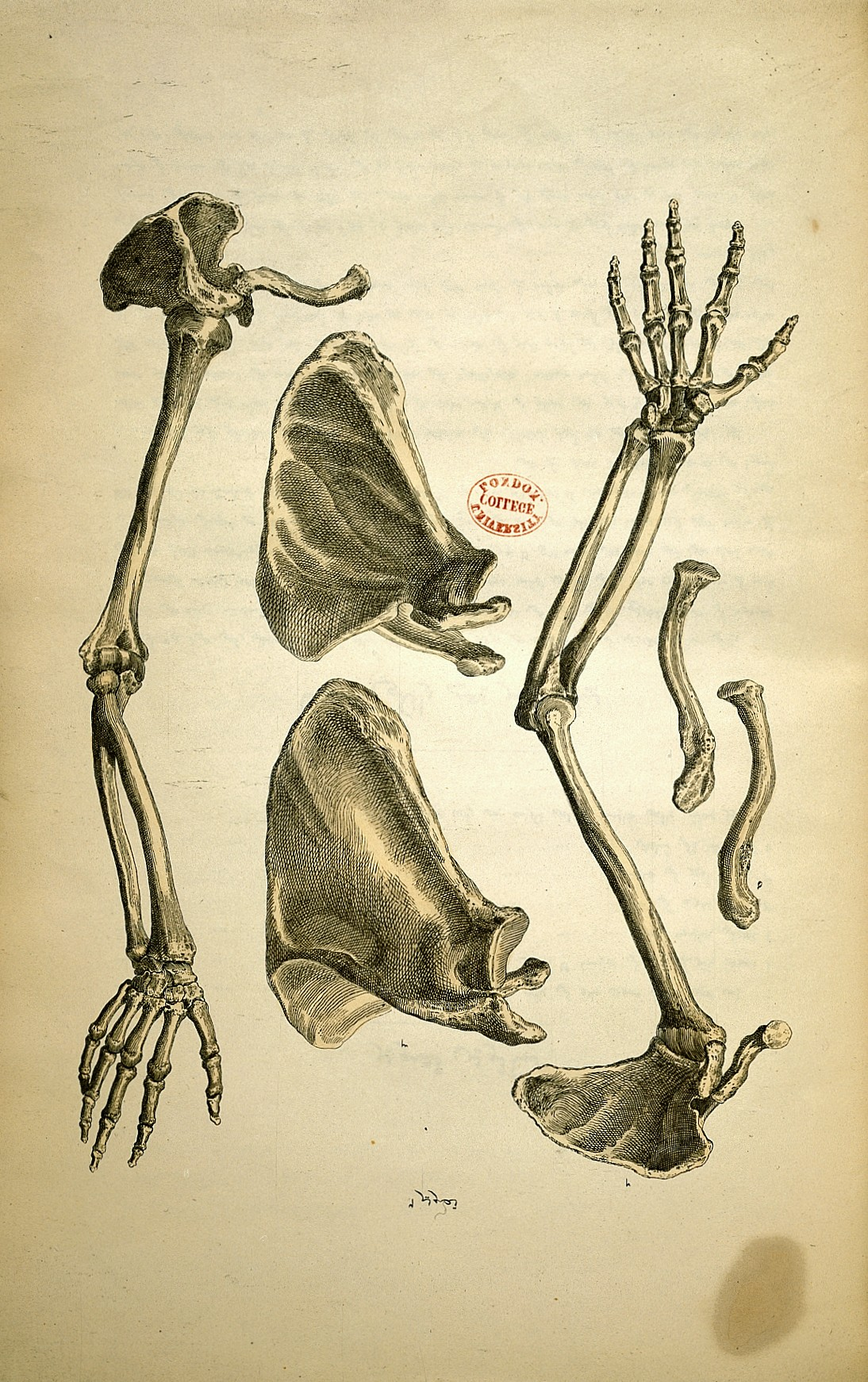 Human arm, hand and collar bones Rare Books Keywords: Anatomy; Frederic John Mouat